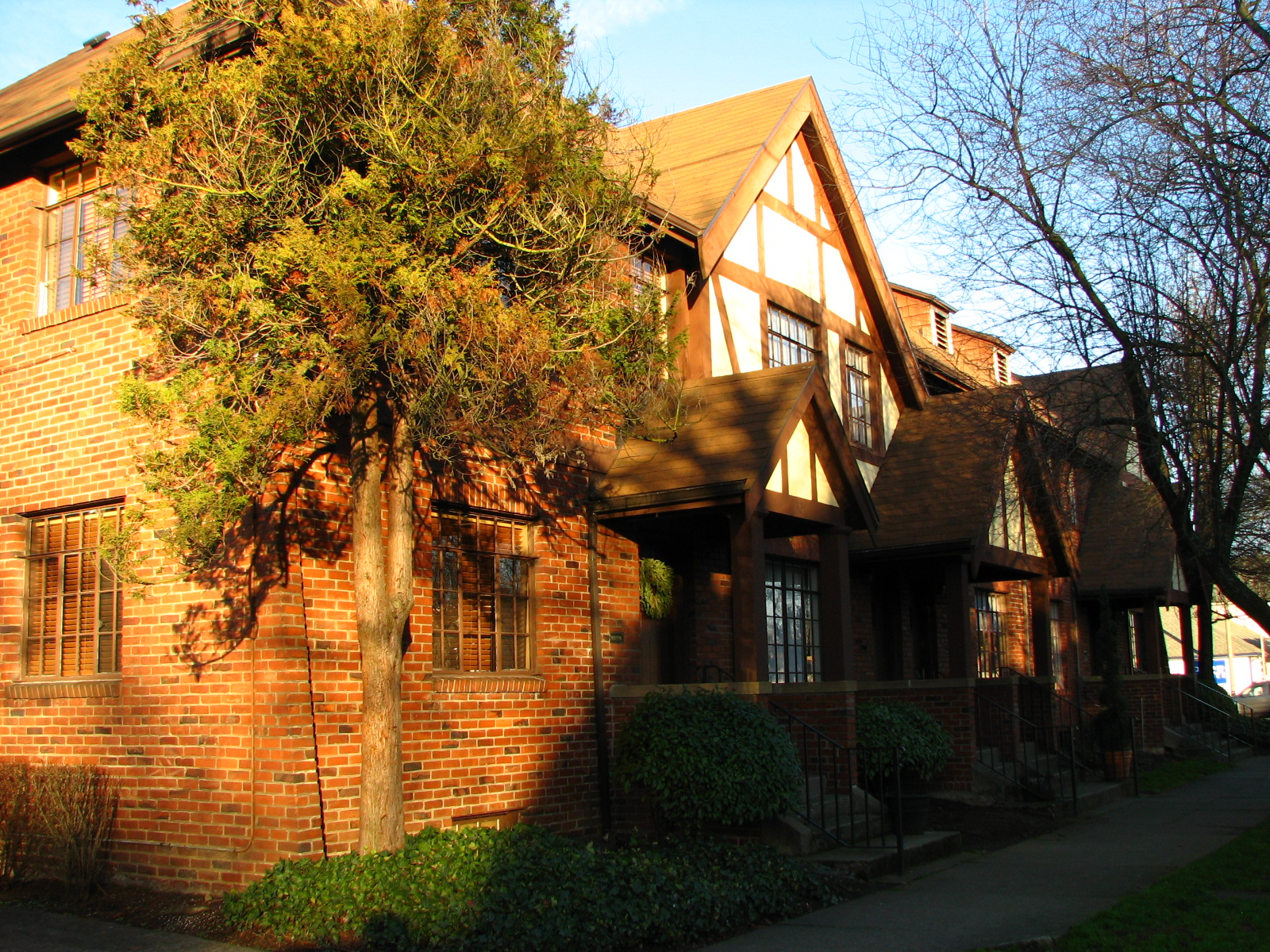 The historic Clovelly Garden Apartments (built 1928), located at 6307-6319 Northeast Martin Luther King Jr. Boulevard in Portland, Oregon, United States, is listed on the US National Register of Historic Places.